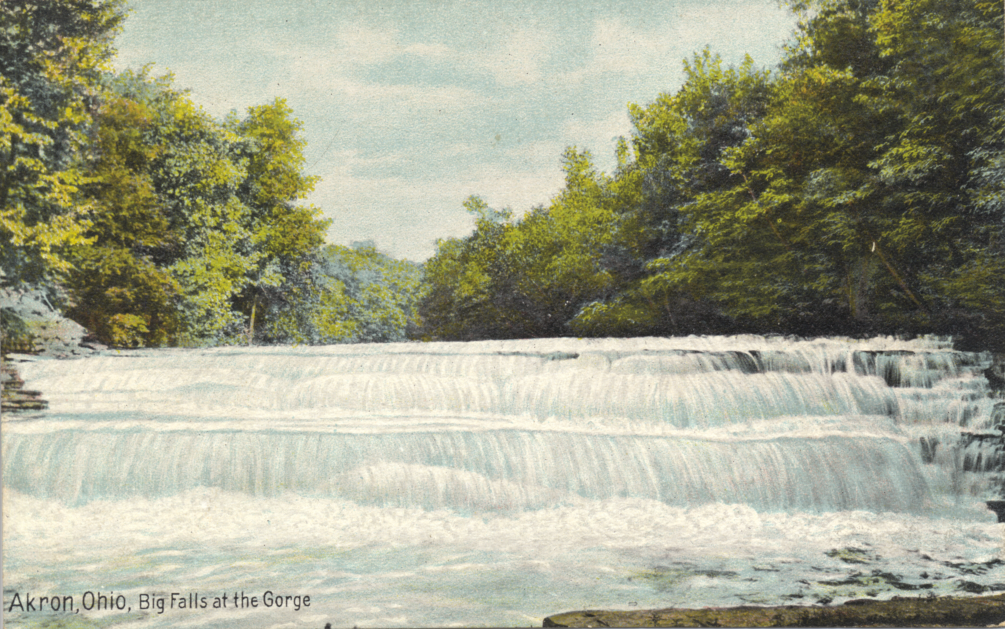 Persistent URL: Subject (TGM): Waterfalls